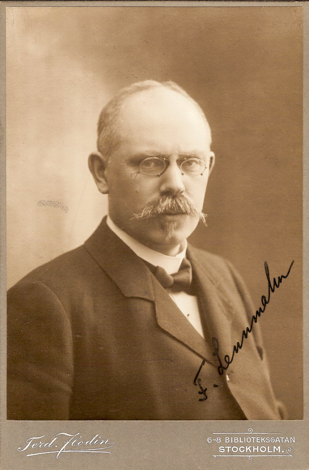 Frithiof Lennmalm (1858-1924), Swedish medical doctor, race biologist and professor at Karolinska institutet, Stockholm, Sweden. With signature.